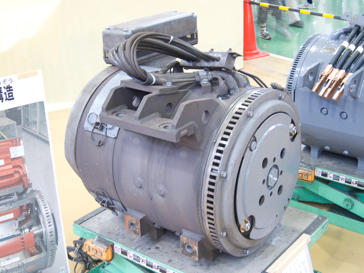 130kW DC traction motor of Seibu Railway 2000 series EMU.